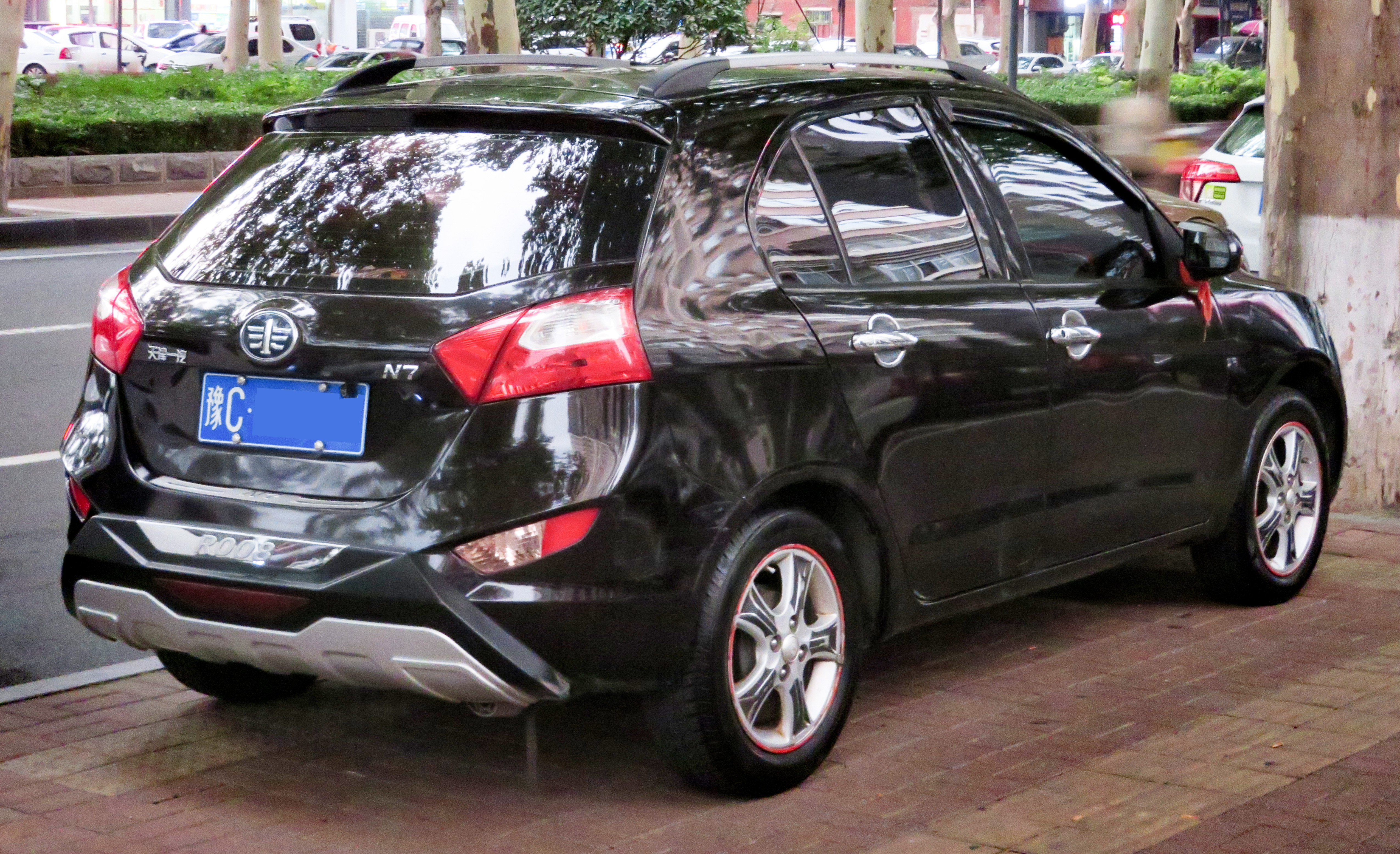 A 2015 FAW-Tianjin Xiali N7 photographed in Xigong District, Luoyang, Henan province, China